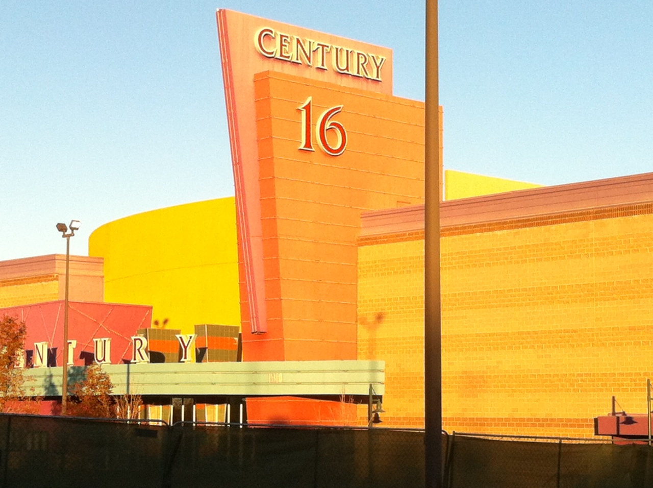 Aurora Cinema 16 after shooting - 10/2/12